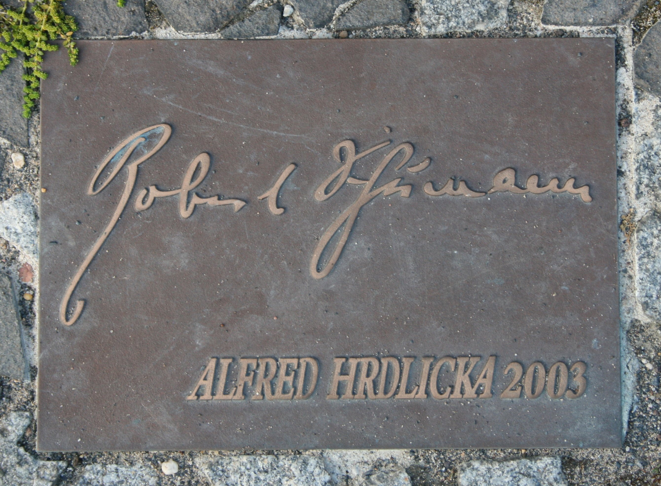 table to sculpture head of Robert Schumann in front of Schumannhaus in Bonn, Germany; made by Austrian sculptor and painter Alfred Hrdlicka in 2003.